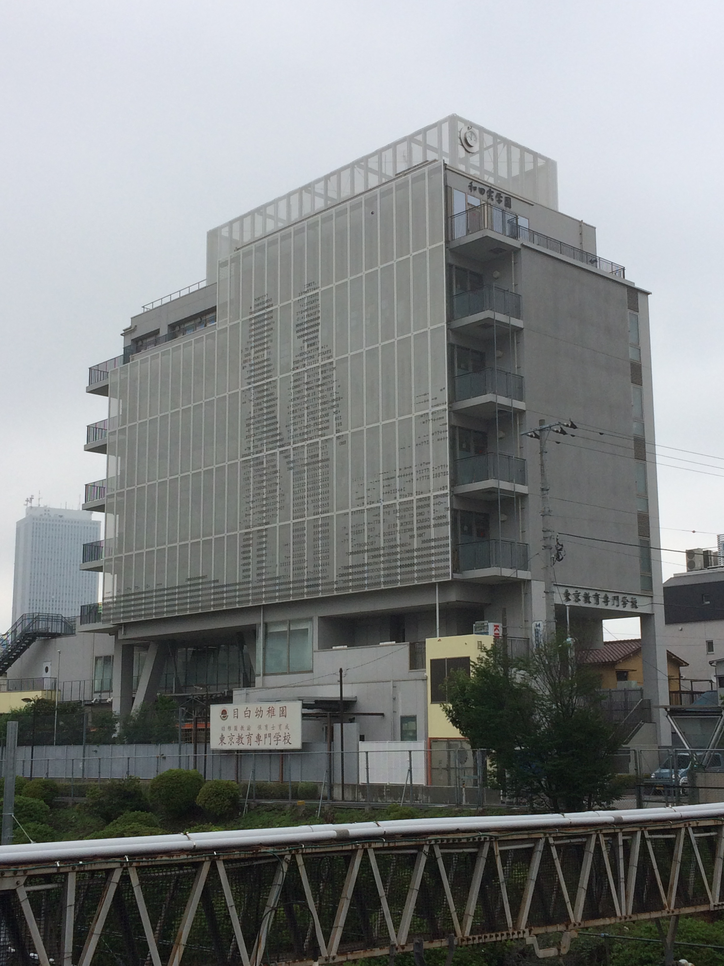 Tokyo Kyoiku Senmongakko, Mejiro, Tokyo. Photographed 2018-06-12.